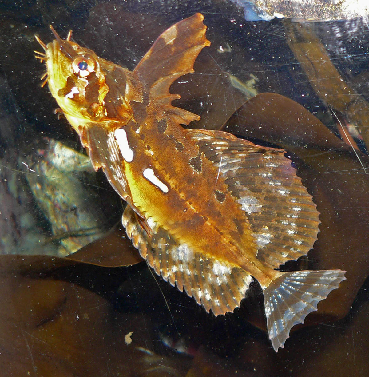 Photo of Blepsias cirrhosus (silverspotted sculpin) at the Vancouver Aquarium